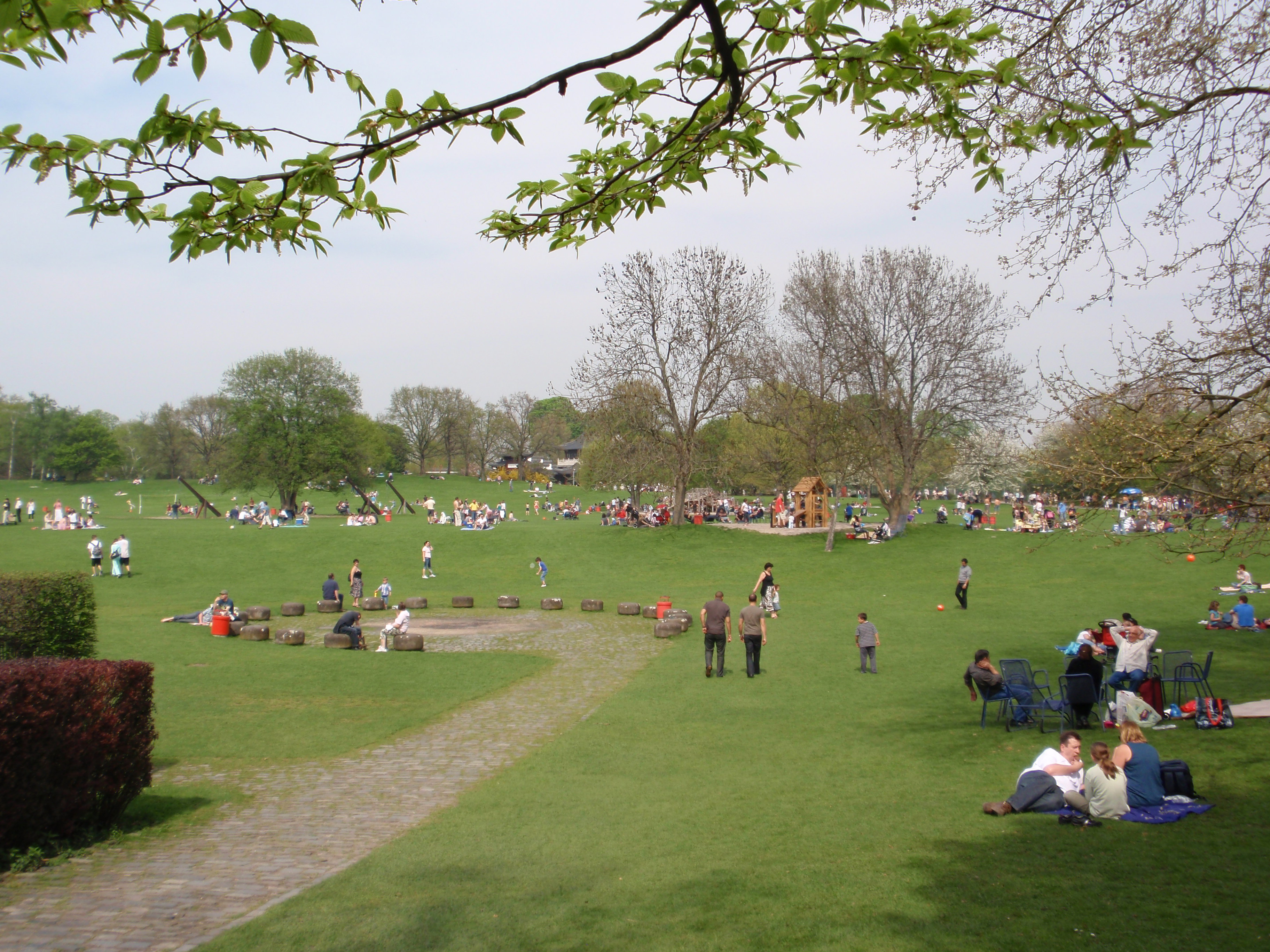 Recreational lawn area in the Luisenpark Mannheim (Germany)